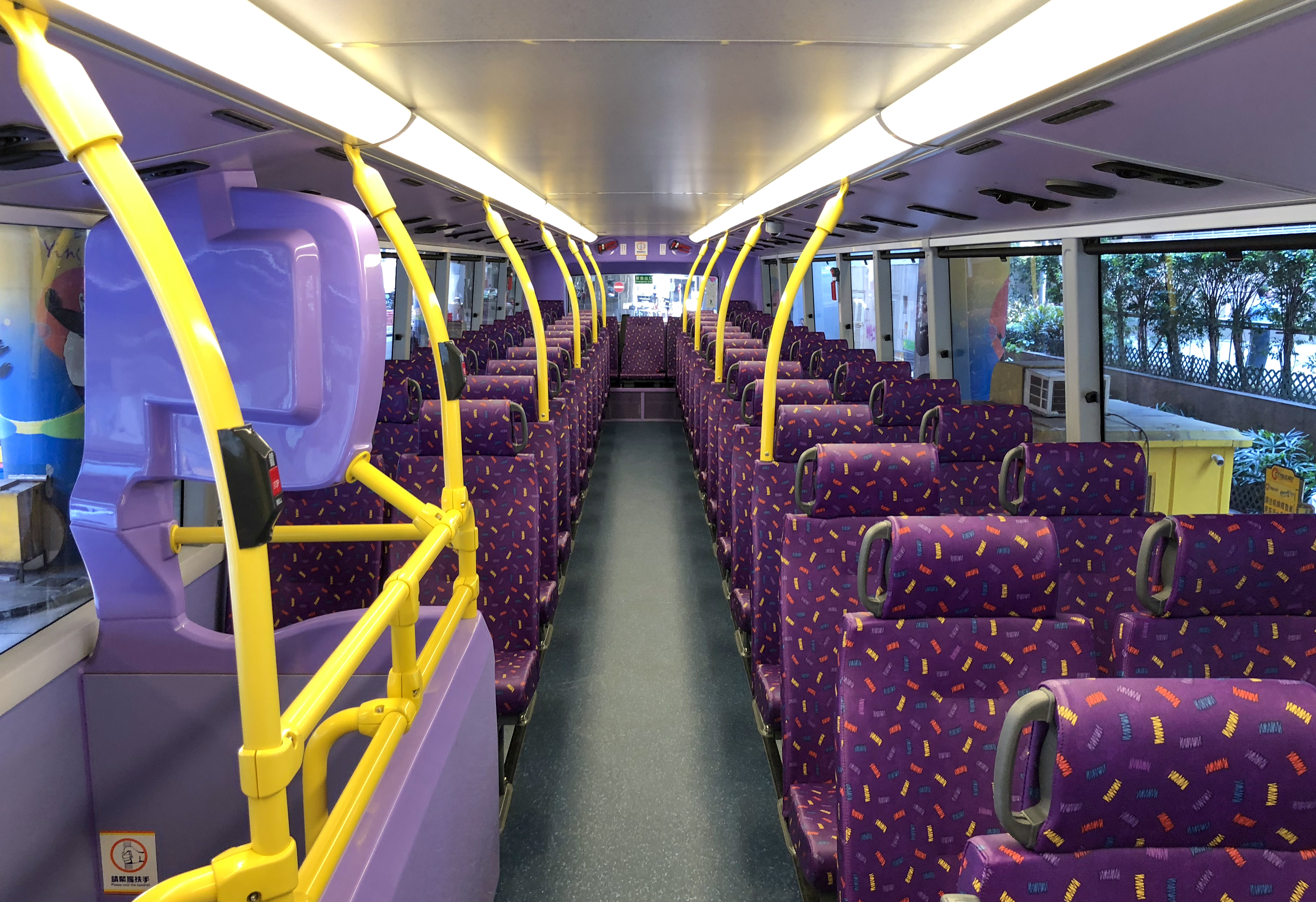 The passenger flow wasn't so large - passengers from Hong Kong West Kowloon Station tend to take the MTR to get around.